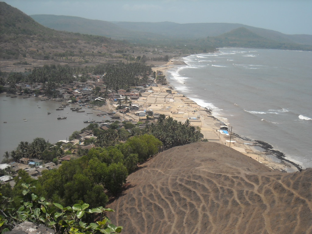 Korlai village a view from korlai fort